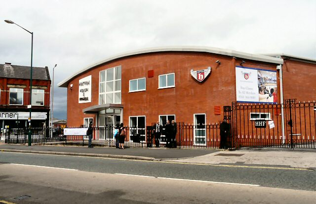 Hatton Health and Fitness Gymnasium on Stockport Road, Hyde owned by Ricky Hatton. This was taken shortly after the visit by Mohammed Ali.